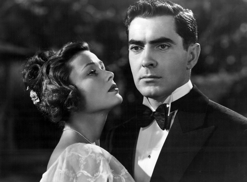 Photo from the 1946 film The Razor's Edge.